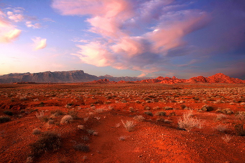 Pre-Sunrise at Valley of Fire State Park in Nevada.